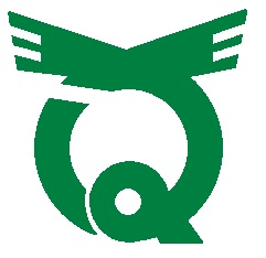 Hanoura Tokushimna chapter